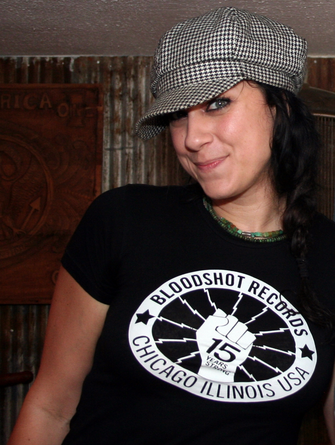 Danielle Colby-Cushman in 2010.